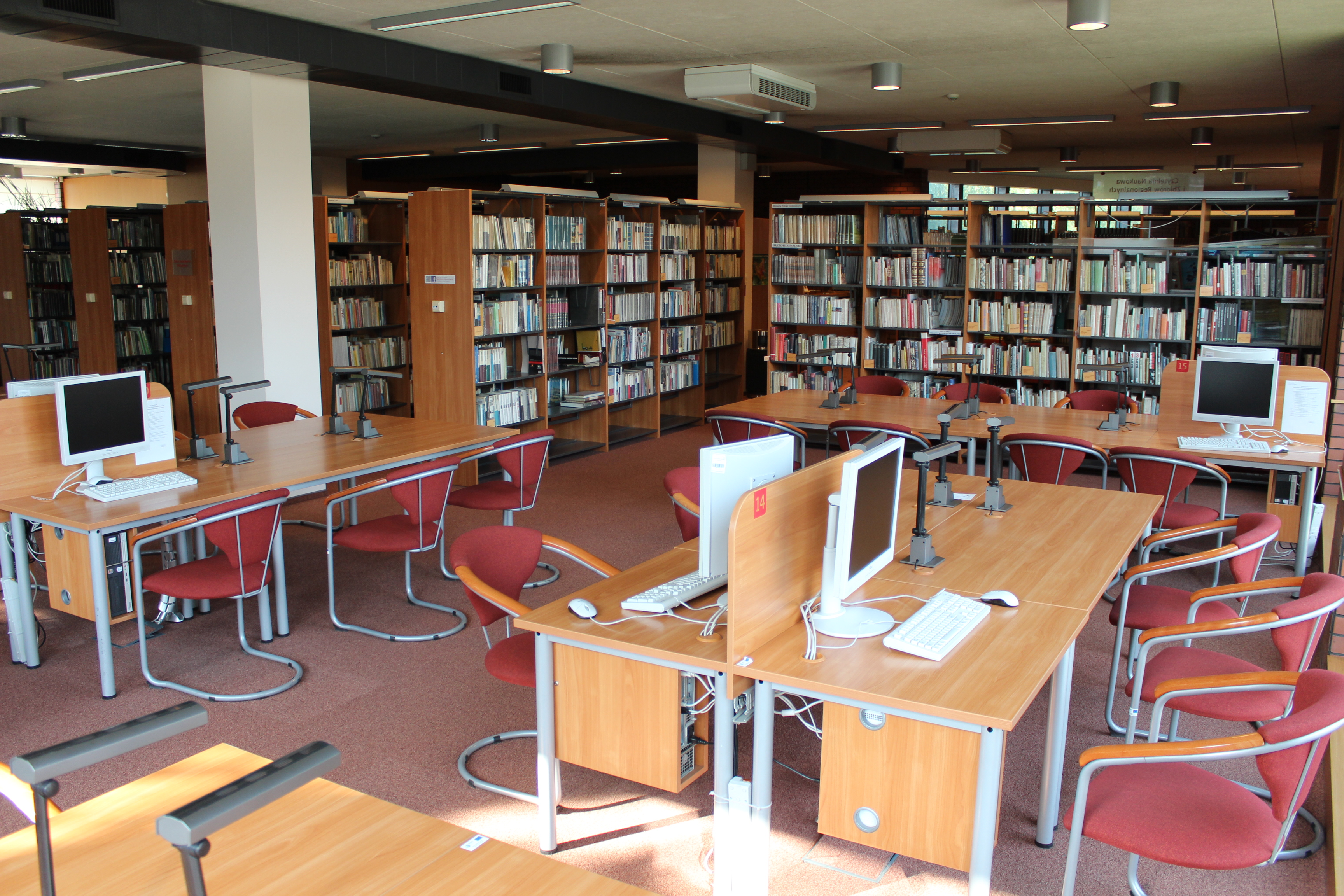 Reading Room of City Public Library in Jaworzno